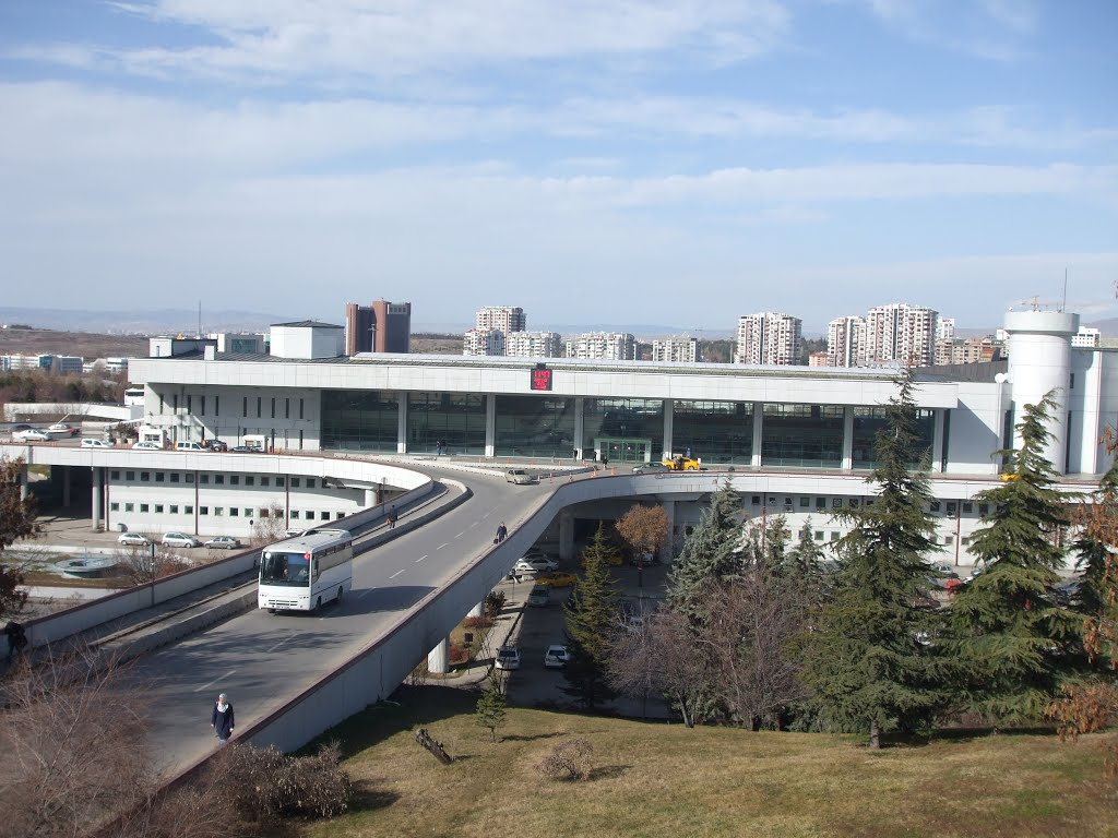 Ankara Intercity Bus Terminal (Turkish: AŞTİ terminal), 2011.